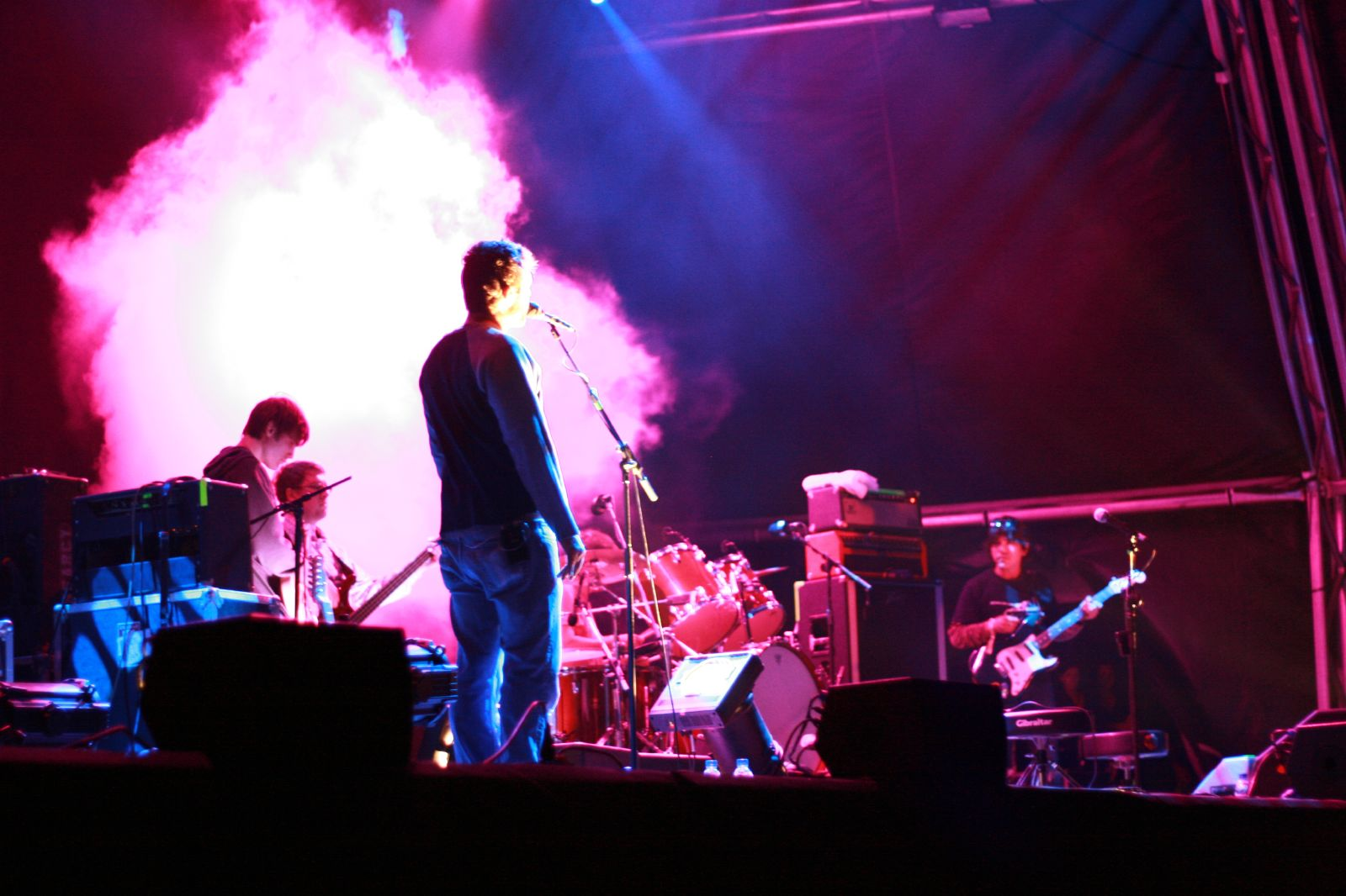 Slint live in 2007